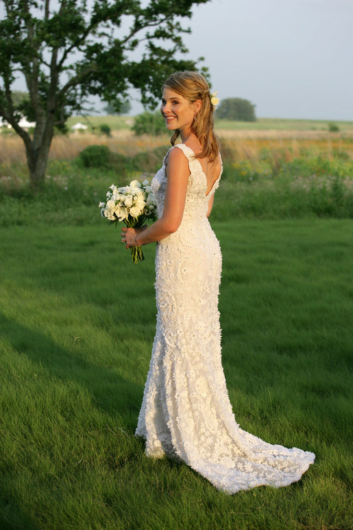 Jenna Bush poses for a photographer prior to her wedding to Henry Hager at Prairie Chapel Ranch near Crawford, Texas.